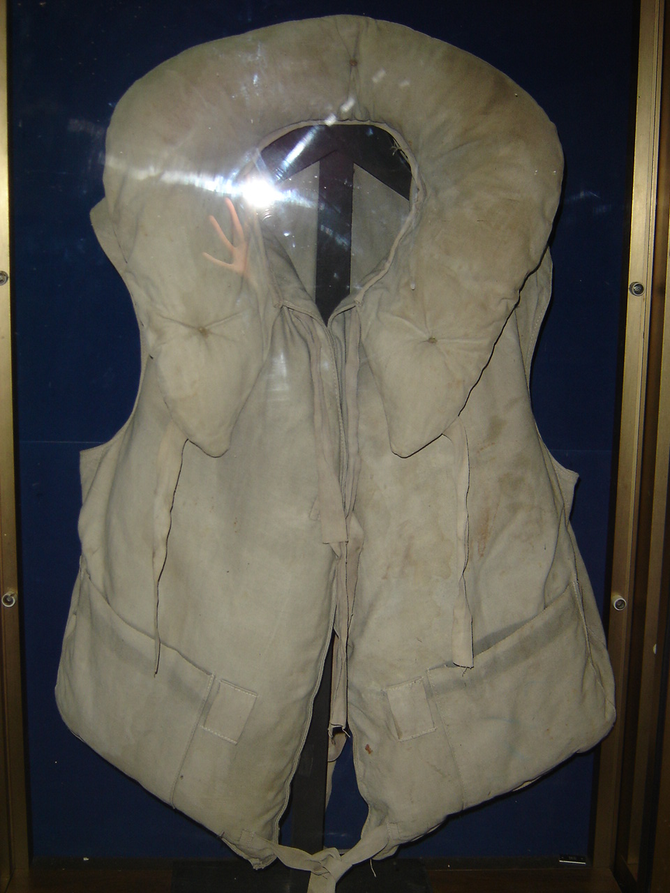 US-Lifevest from Second Worldwar. Picture shot in Malta, April 2006. Author: Juliana da Costa José